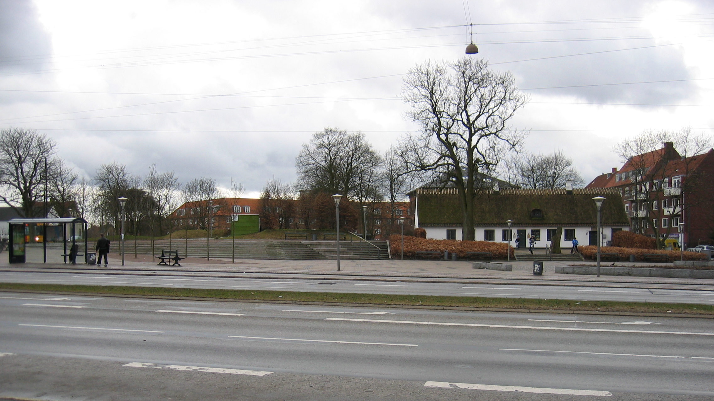 Brønshøj town square, Denmark